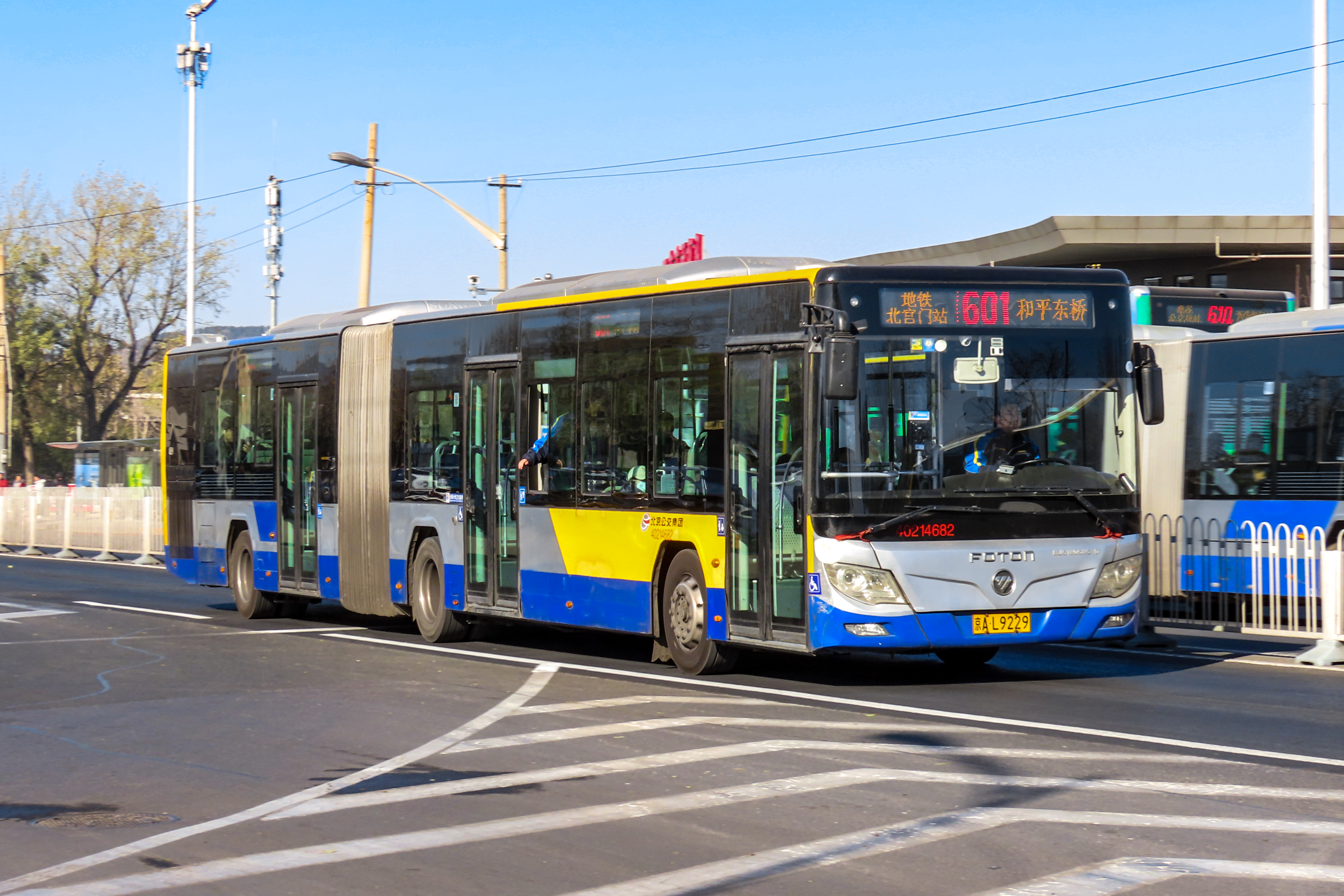 Ah-le-le? What on earth brought you to the great northwest? Yes, Route 57 has been switched to GTQ6131BEVST8, and the 18m Fotons went to Haidian Northwest. This prototype is now running 601, formerly the (in)famous route 801 with fare up to CNY11 (truly expensive in late 1990s).